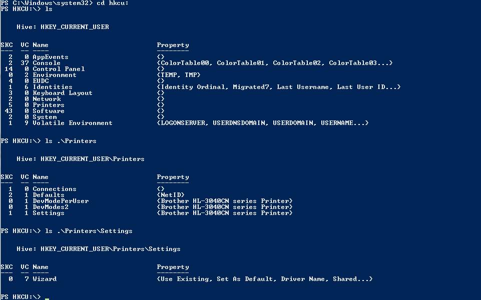 Sample session with PowerShell registry provider